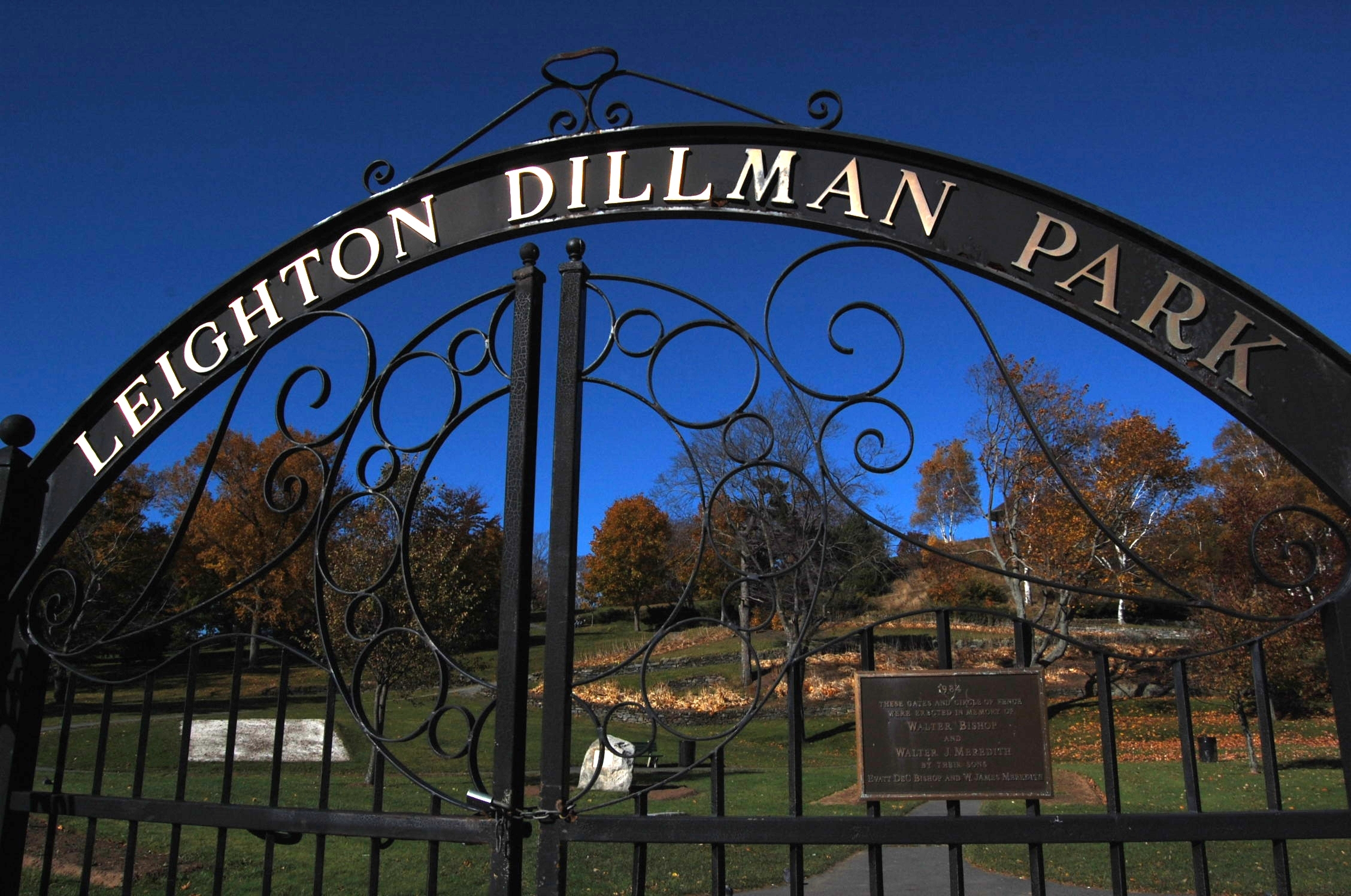 Park gate, Leighton Dillman Park, part of Dartmouth Common, Halifax Regional Municipality, Nova Sscotia